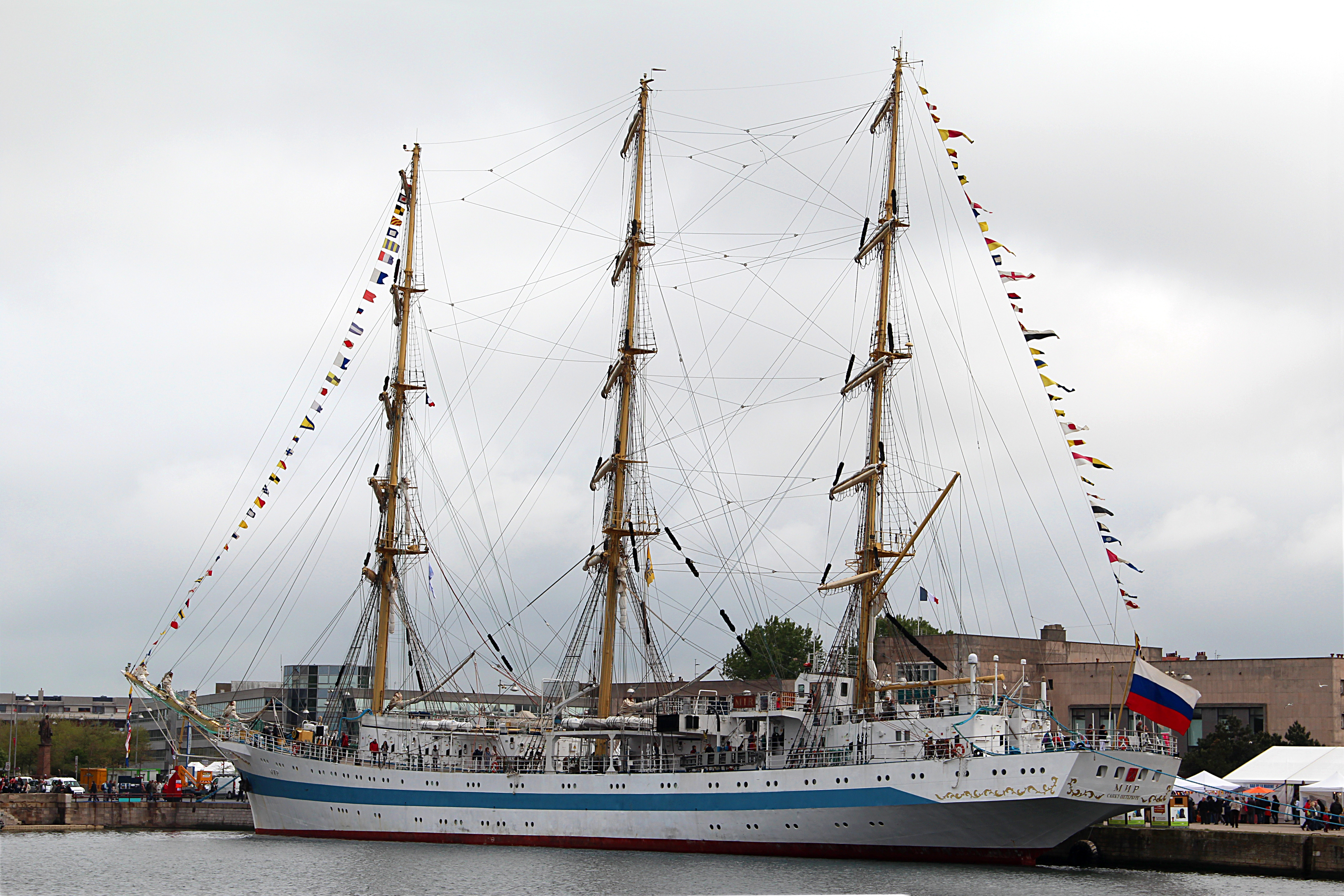 The Russian Full-rigged ship STS Mir (Russian: Мир), built in 1987 at Lenin Shipyard in Gdańsk, Poland. Photograph taken on June 1, 2013 during the large maritime gathering in Dunkirk.